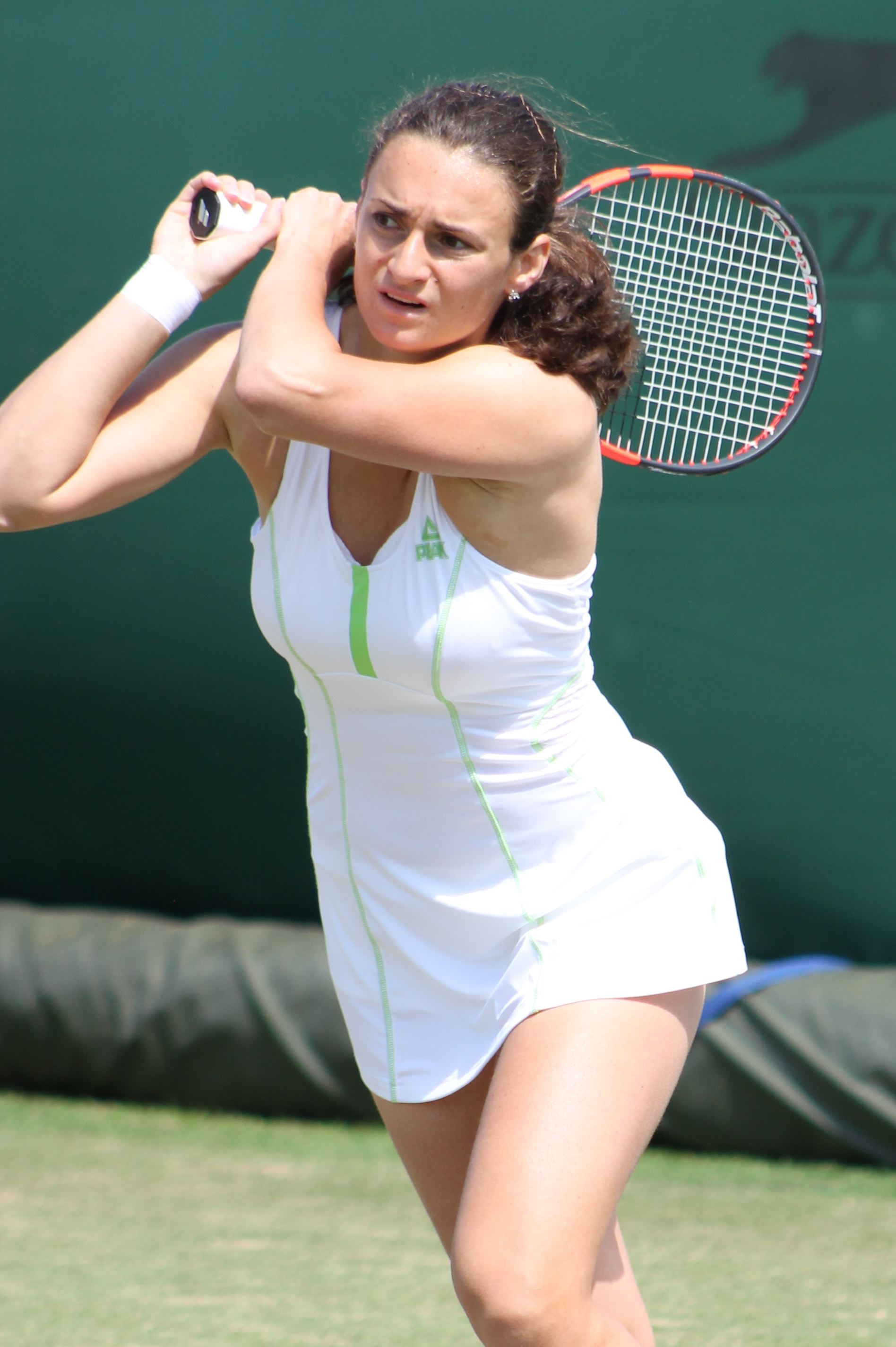 Dolonc WMQ14 (3)